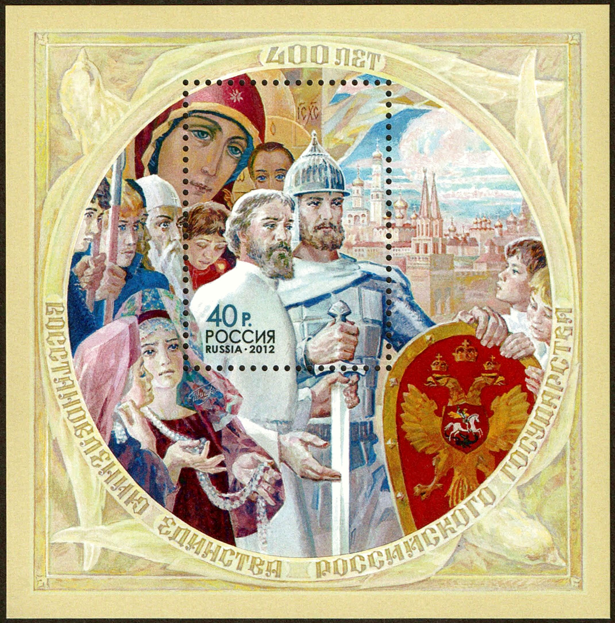 400th anniversary of the reunification of the Russian nation. The souvenir sheet of Russia, 1 stamp×40.00 Rubles, 2 November 2012, PTC Marka Catalogue No 1647. Coated paper. Offset printing. Perforation: frame 12×12½ . The size of the souvenir sheet: 89×90 mm. The size of the stamp: 30×42 mm. Print run: 90,000. The souvenir sheet was issued to commemorate 400th anniversary of the expelling of the Polish-Lithuanian occupation forces from Moscow during the Time of Troubles in 1612. This event is considered as the symbol of the fact that the all social classes of occupied and torn by a civil war Russia united to preserve Russian statehood when there was no central power (neither a tsar nor a patriarch) to guide them. The souvenir sheet features: the leaders of the struggle against Polish-Lithuanian invasion Prince Dmitry Pozharsky and Kuzma Minin (in the centre, with a sword that they are holding together); the spiritual leader of the resistance to invaders and the strife against separatists Patriarch Hermogenes (on the left, in the white klobuk); women giving their jewellery to the needs of the militia organized by K. Minin and D. Pozharsky; the icon of Theotokos of Kazan, that is considered as a protector of Russia and, as it is believed, was helping Russian forces during the war on interventionists; the coat of arms of Russia in 1612–1620 (on the right), the view of the Moscow Kremlin in 17th century.